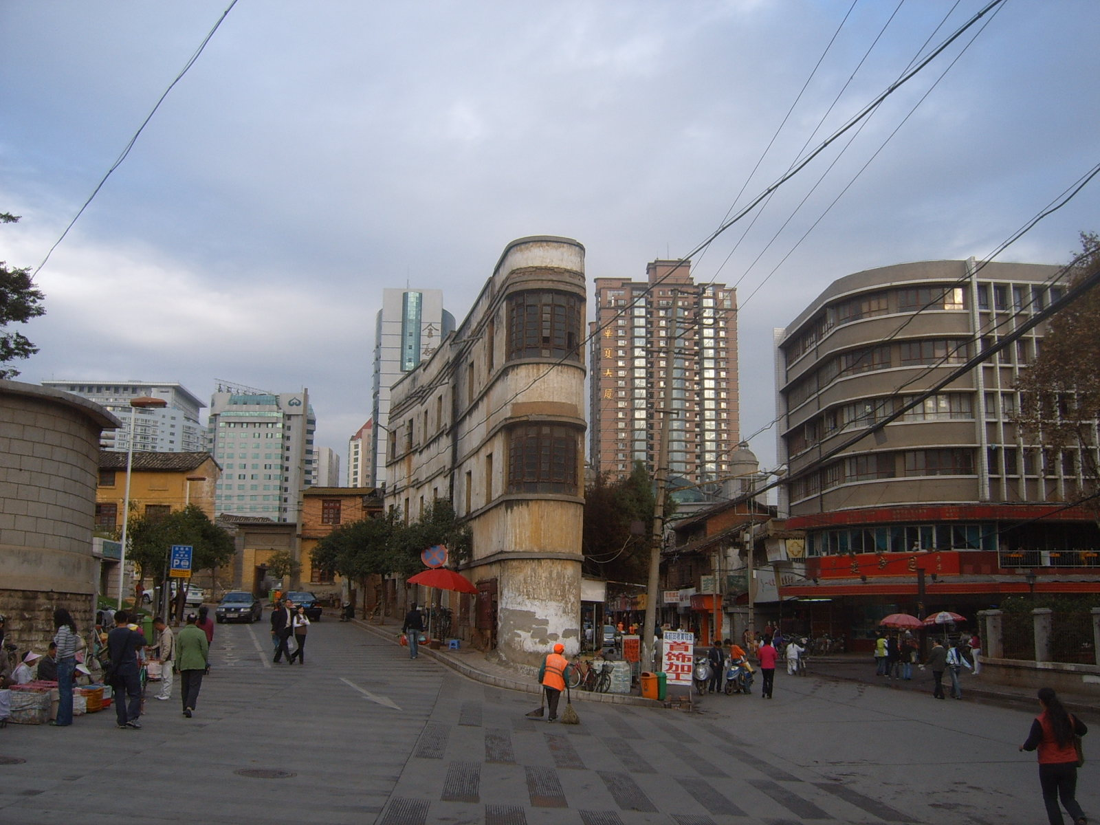 Old Kunming city